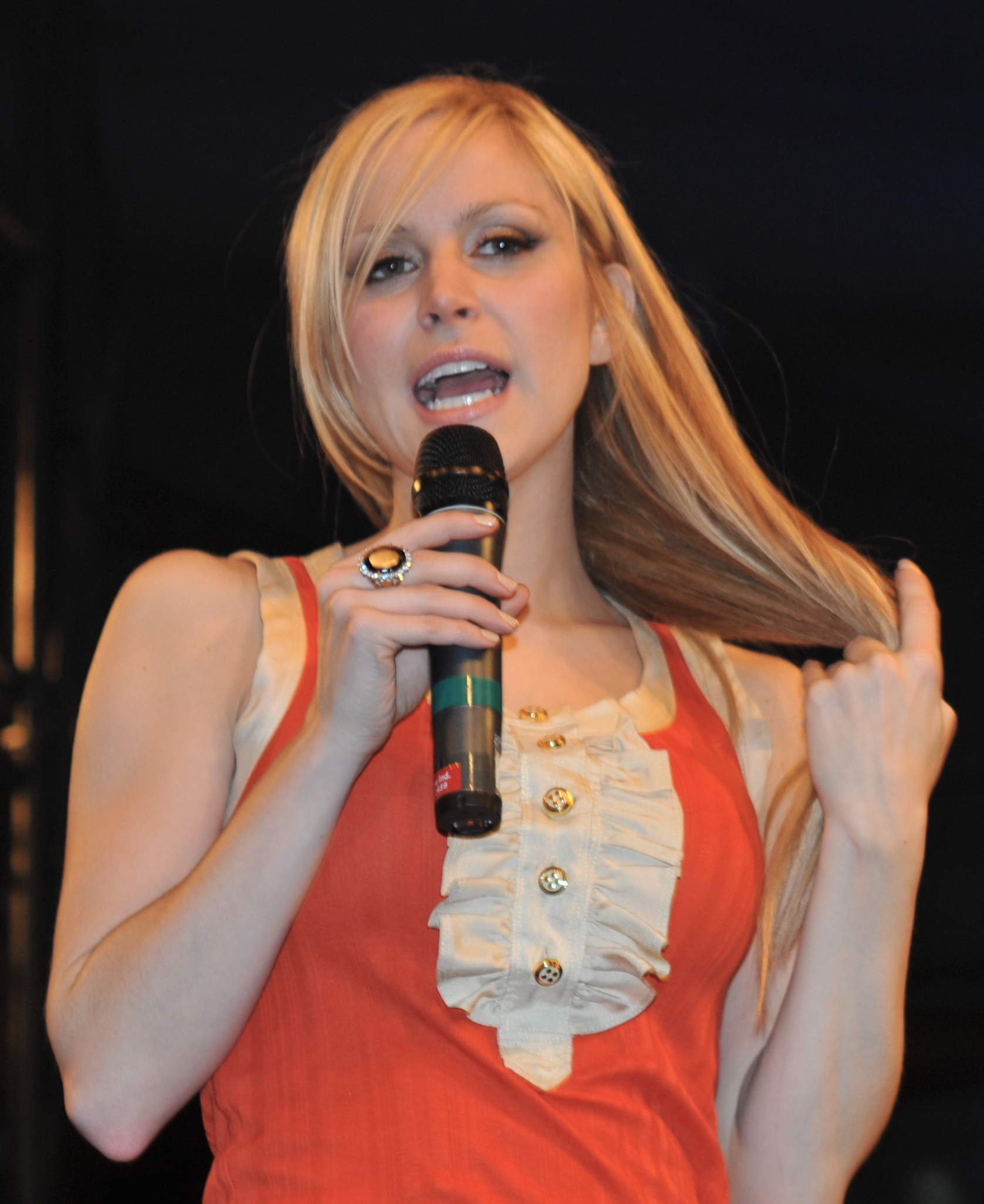 Leah Miller hosting Juno FanFare 2008